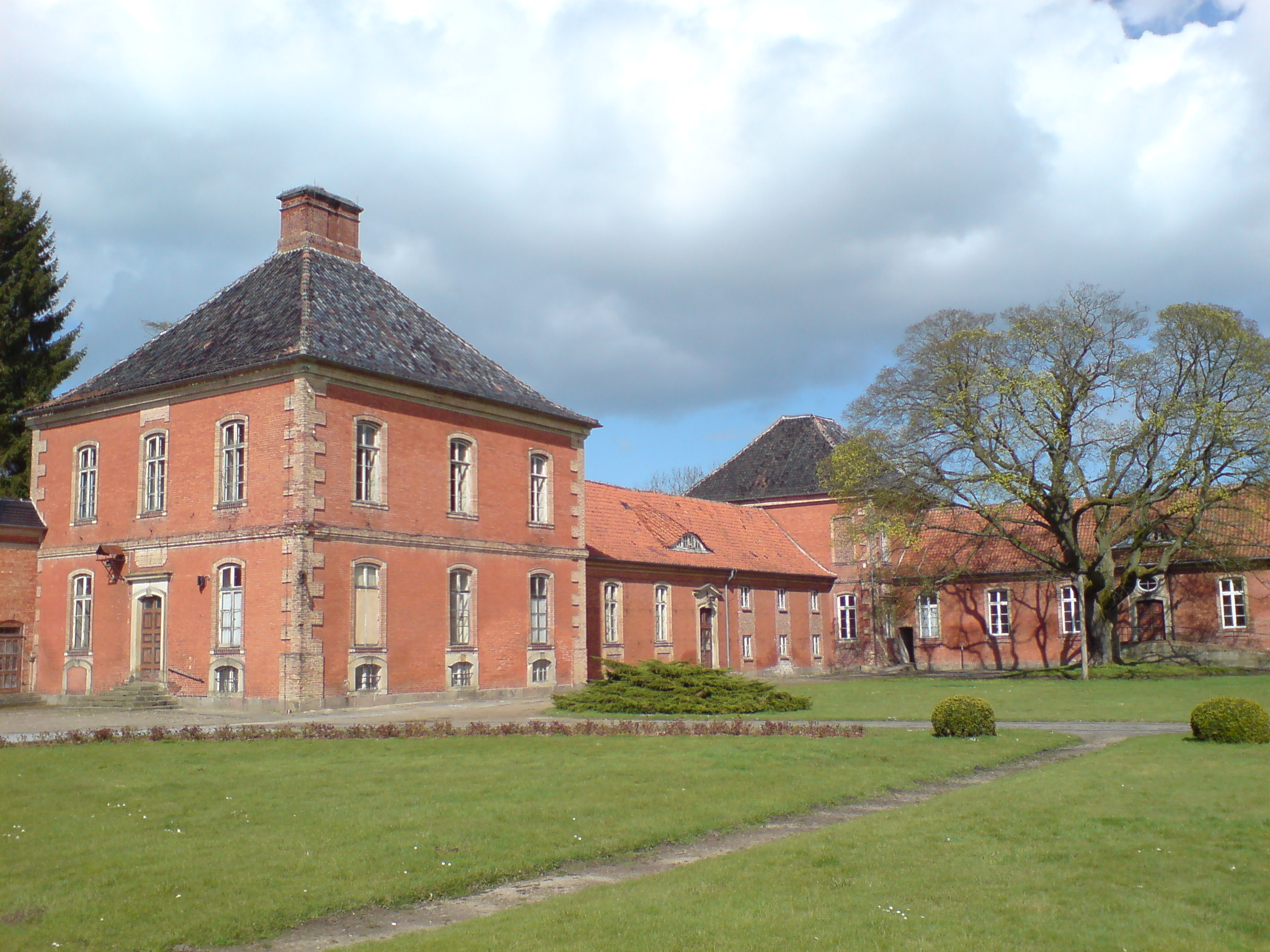 Bothmer Palace, eastwing